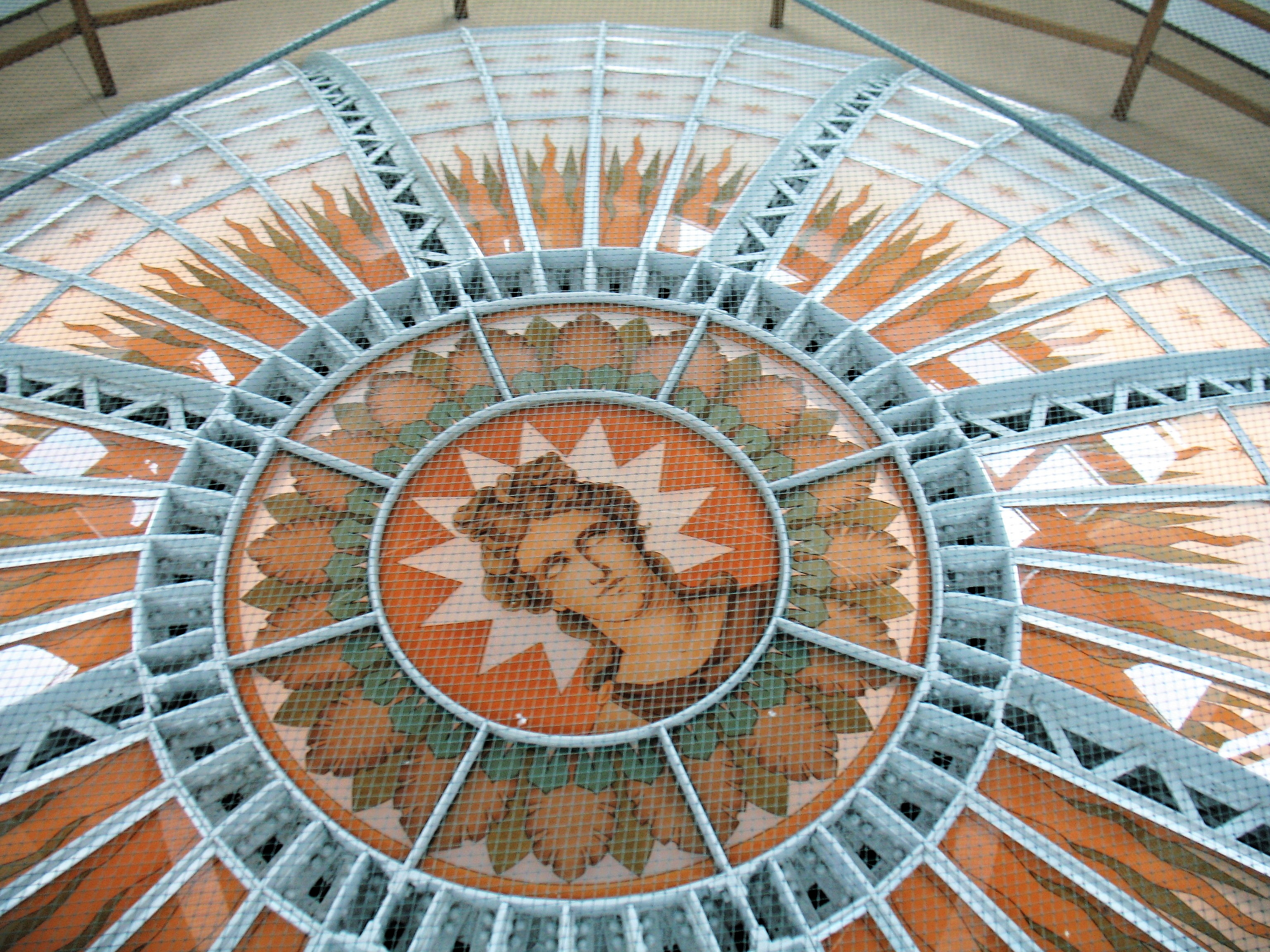 The dome in main building of the National museum in Prague